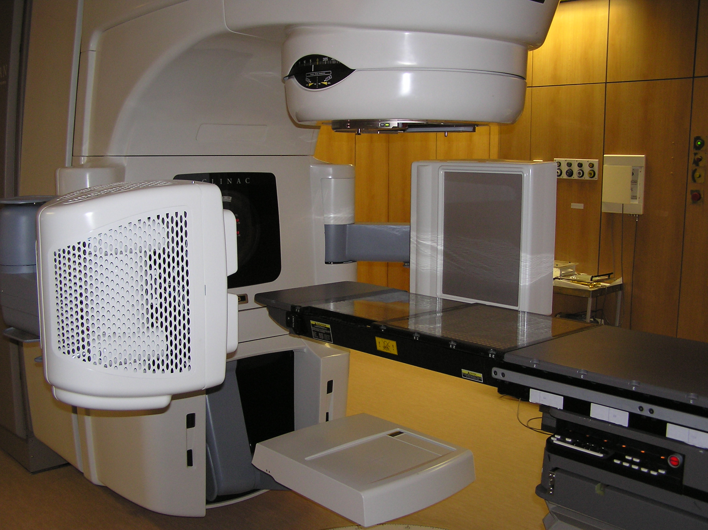 Clinac with 2 roentgens. FN Motol, Prague, 2006-12-01